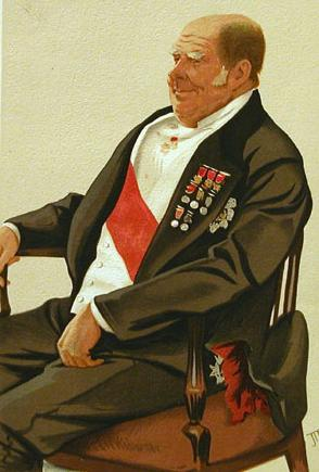 Portrait of admiral Henry Keppel. Caption read "Little Harry".